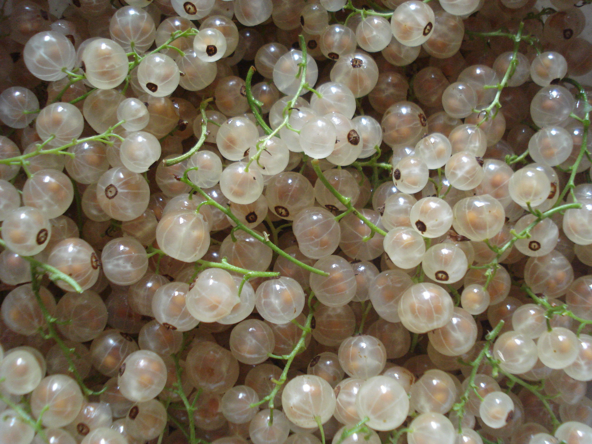 Whitecurrants, grown in Medjimurje County, northern Croatia